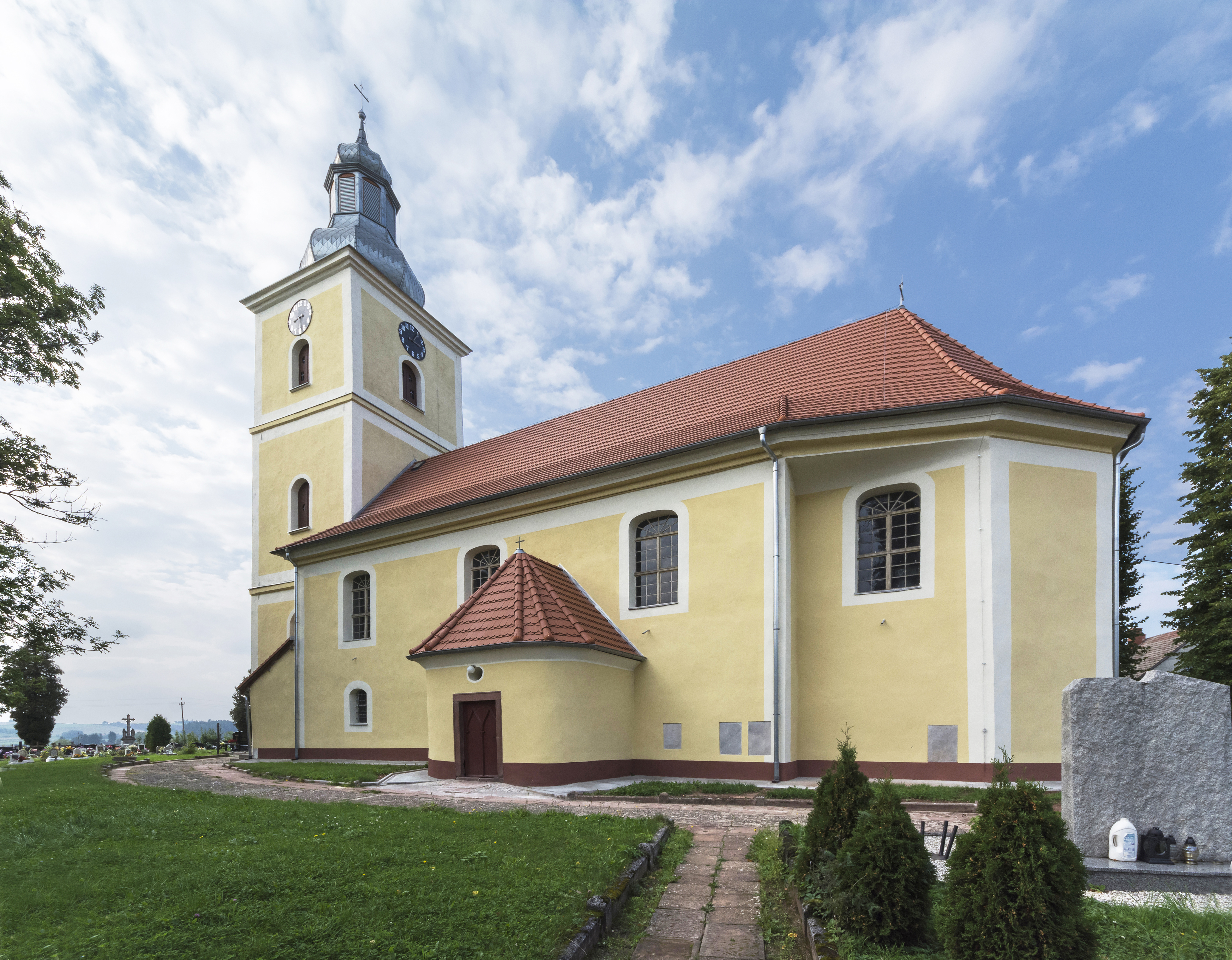 Church of St. Martin in Dzikowiec